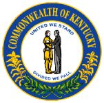 The Kentucky state seal.